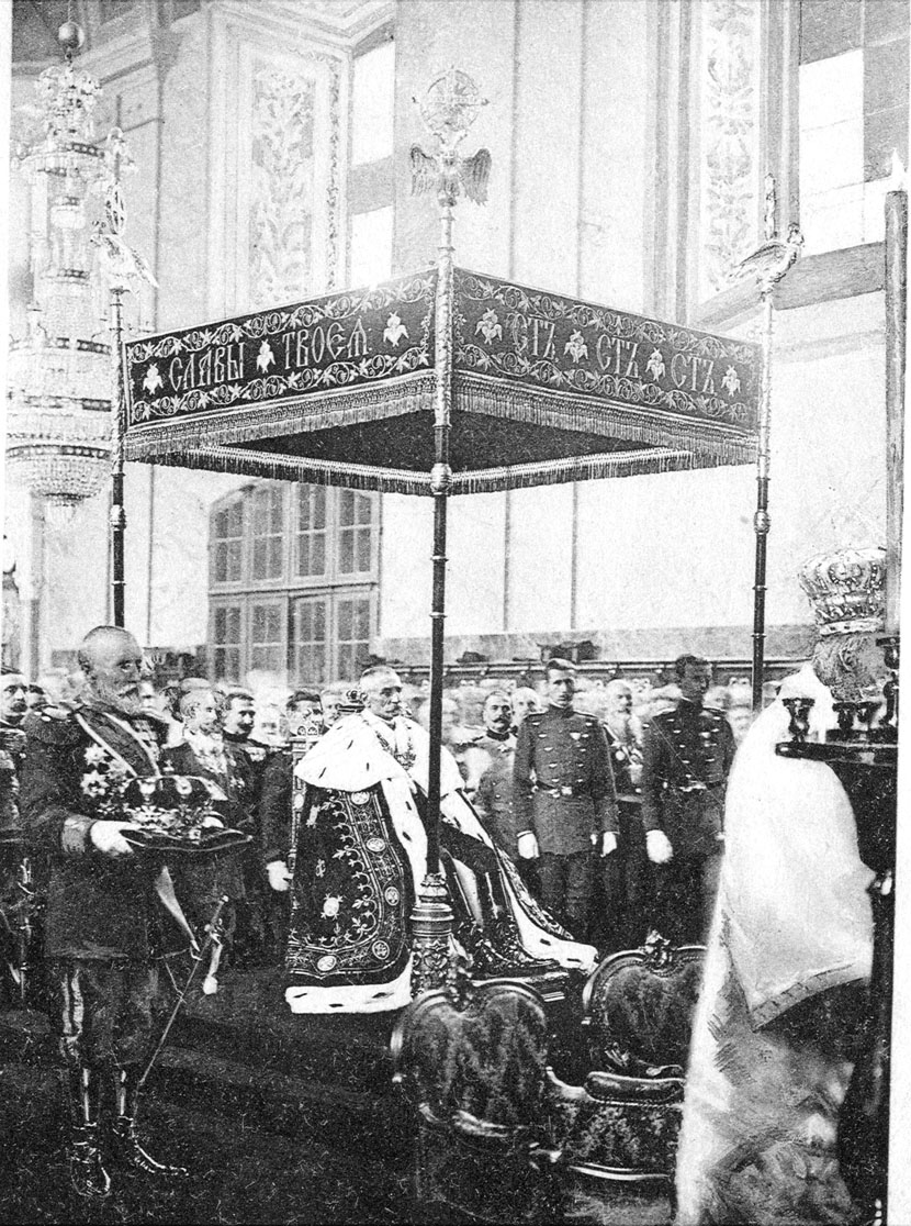 Coronation in Saborna church in Belgrade, Serbia